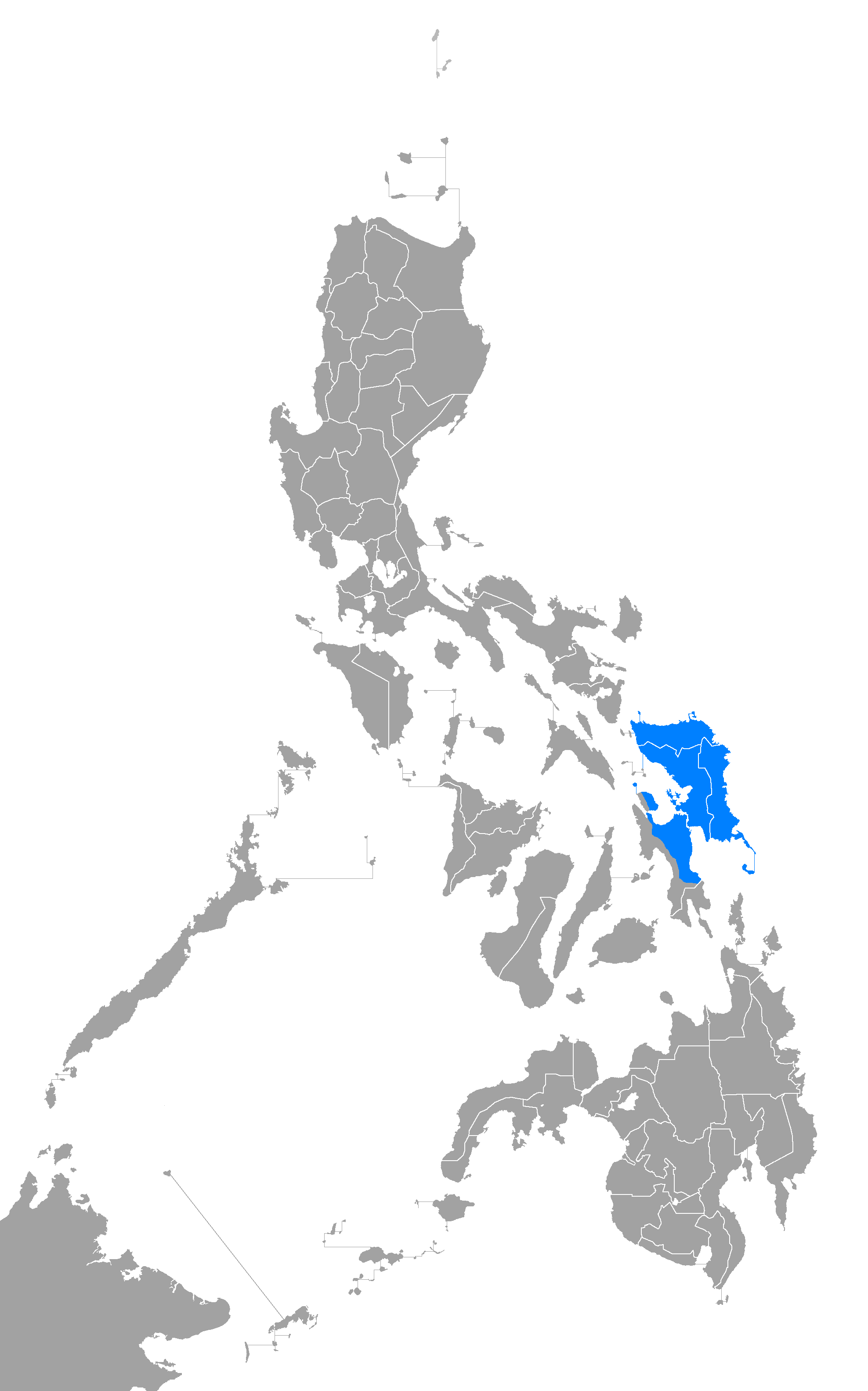 Waray-Waray language map based on Ethnologue maps